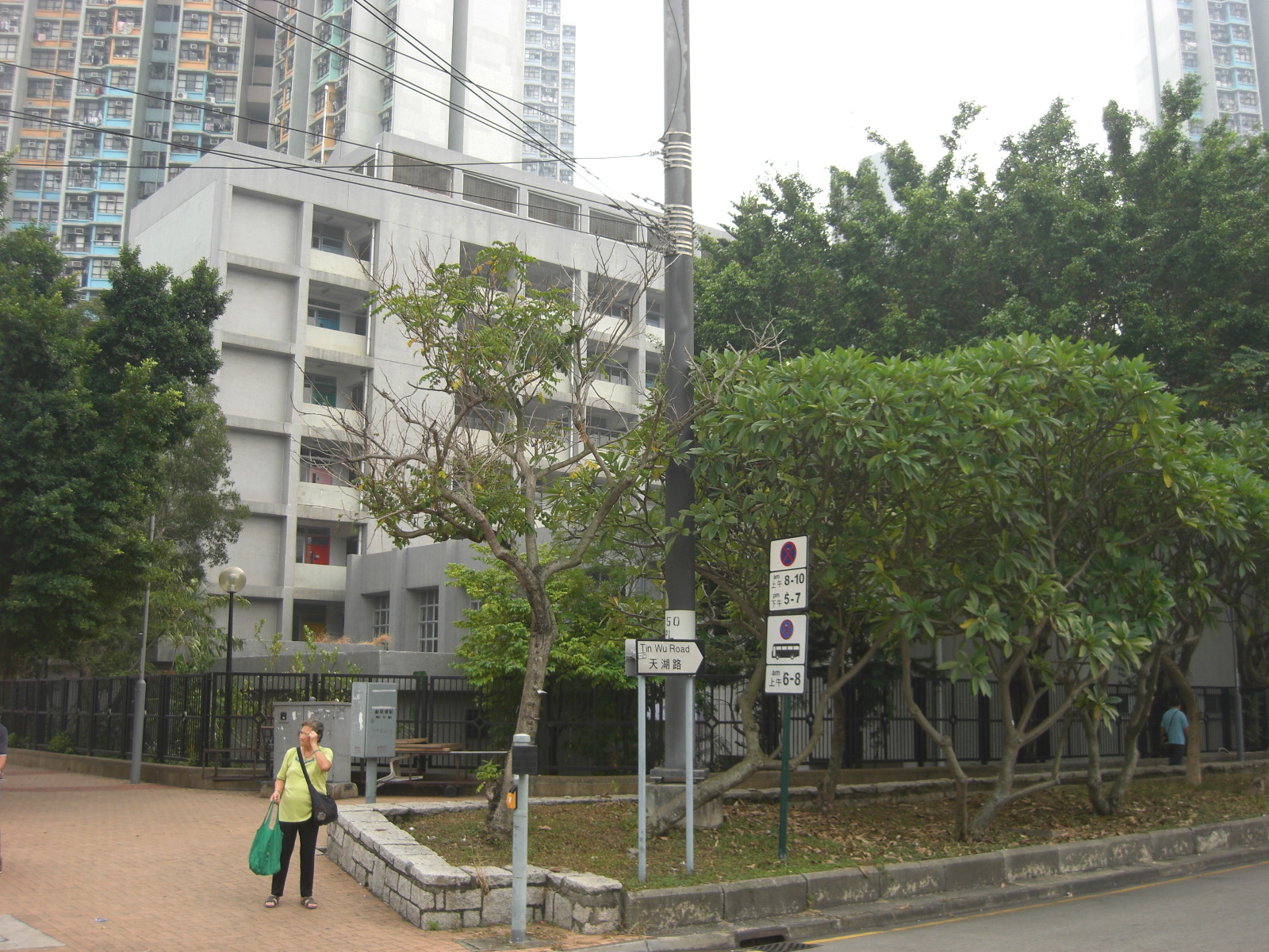 End school for The Christian Church in China(CCC) Fong Yun Wah Primary School,photo at 2012/10